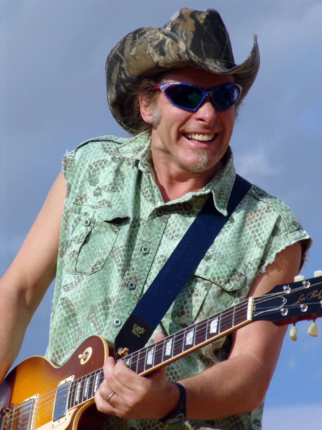 Ted Nugent in concert; 040601-N-8861F-008 Naval Support Activity, Naples, Italy (Jun. 1, 2004) - The "Motor City Madman," Ted Nugent, wails away on his guitar during a recent concert for Sailors and their families at the United Service Organization (USO) sponsored concert held at Naval Support Activity, Naples, support site in Gricignano. Nugent was joined by country music star Toby Keith, who also performed some recently released songs. Nugent is also a spokesman for National Field Archers Association (NFAA), Mothers Against Drunk Driving (MADD), Big Brothers & Big Sisters, and the Drug Abuse Resistance Education (D.A.R.E.) law enforcement program. Both singers will also be traveling to Germany, Kosovo and the Persian Gulf during the tour. U.S. Navy photo by Photographer's Mate 2nd Class Lenny Francioni